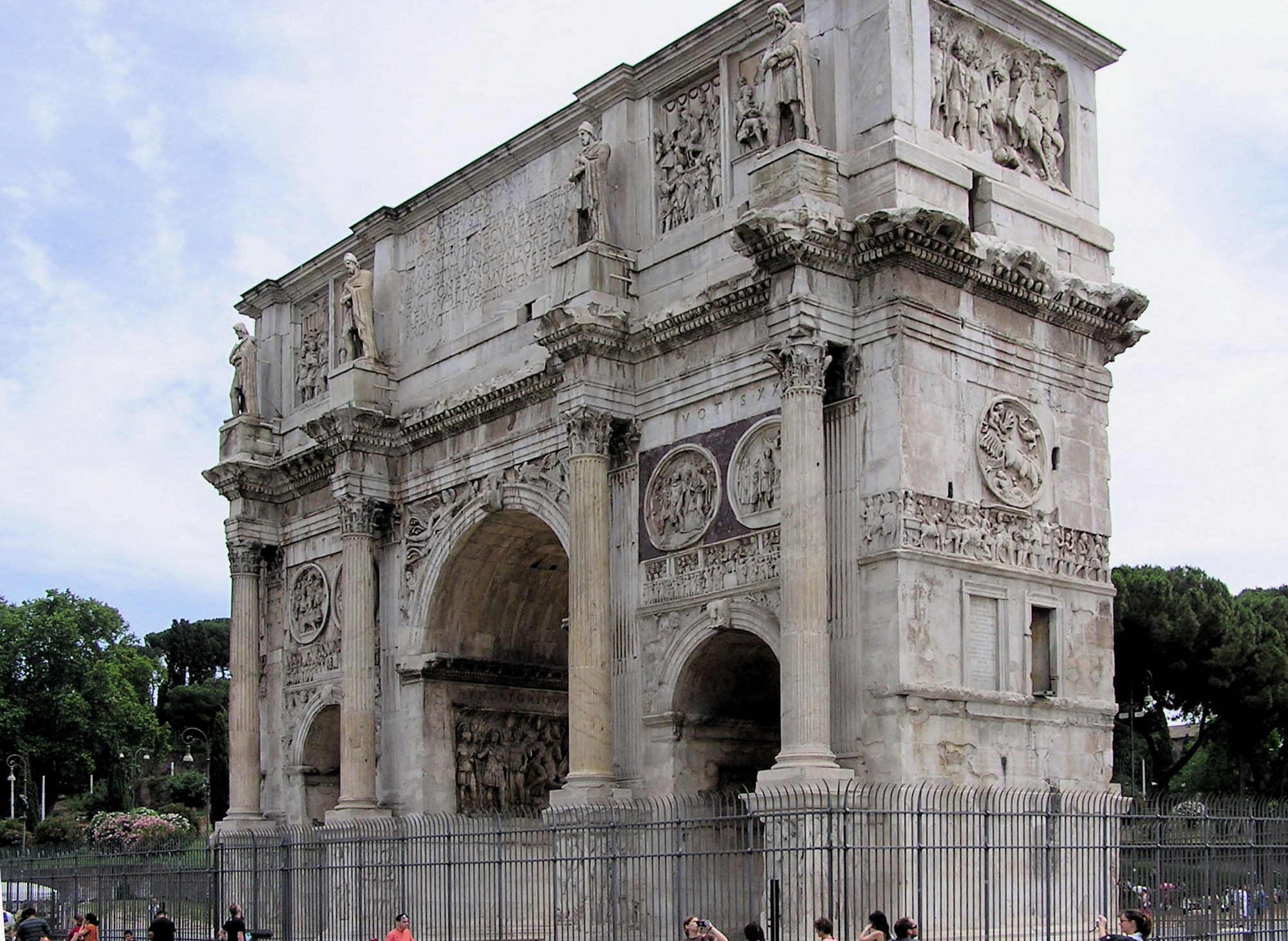 Arch of Constantine, Rome, Italy.